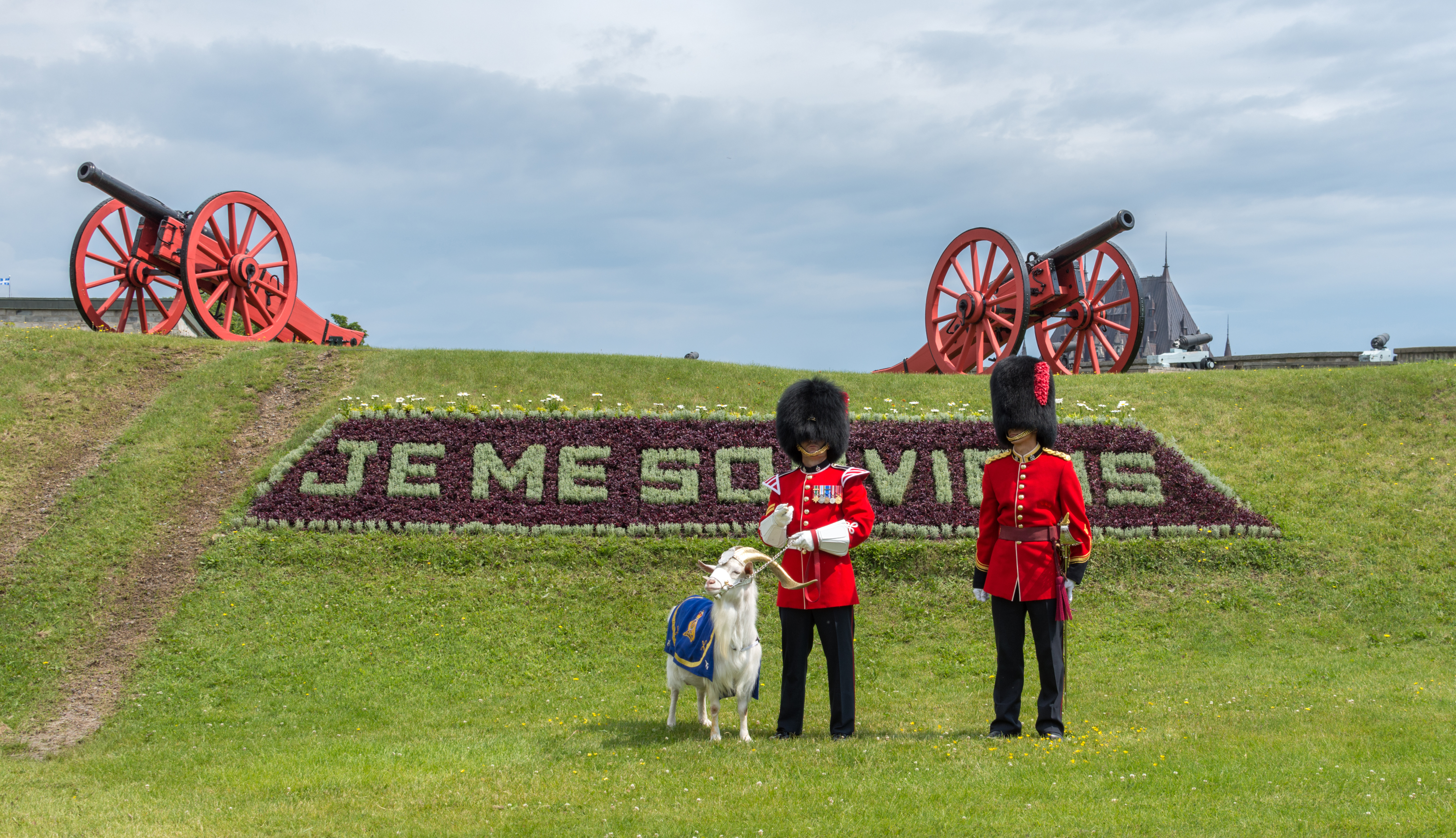 Changing the Guard ceremony during the summer of 2018 at the Citadelle of Quebec by members of the Royal 22e Régiment